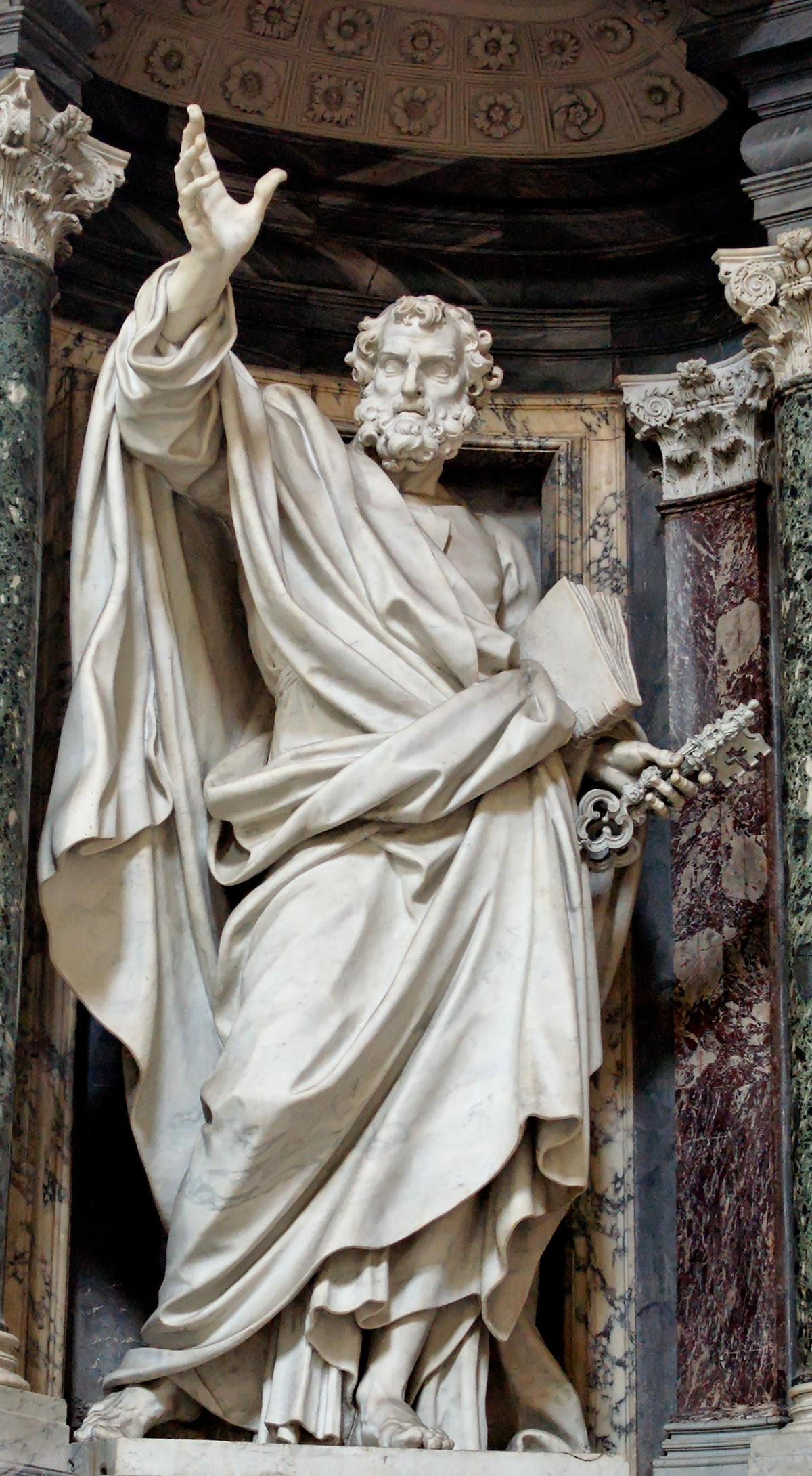 St. Peter by Pierre-Étienne Monnot. Nave of the Basilica of St. John Lateran (Rome).